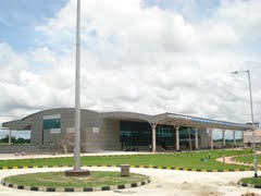 coochbehar airport